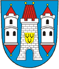 Cpoty of arms of the town of Dobřany, Stod District, Czechia